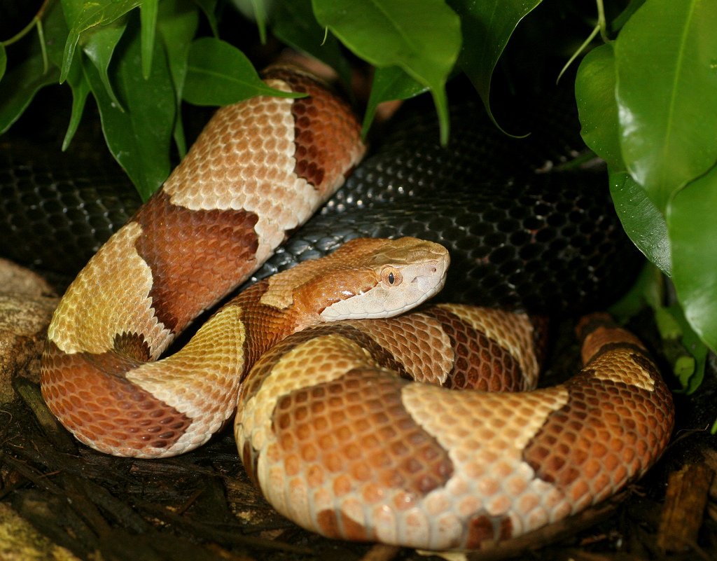 Osage Copperhead (Agkistrodon contortrix phaeogaster) The black snake in the background is a Black Rat Snake.